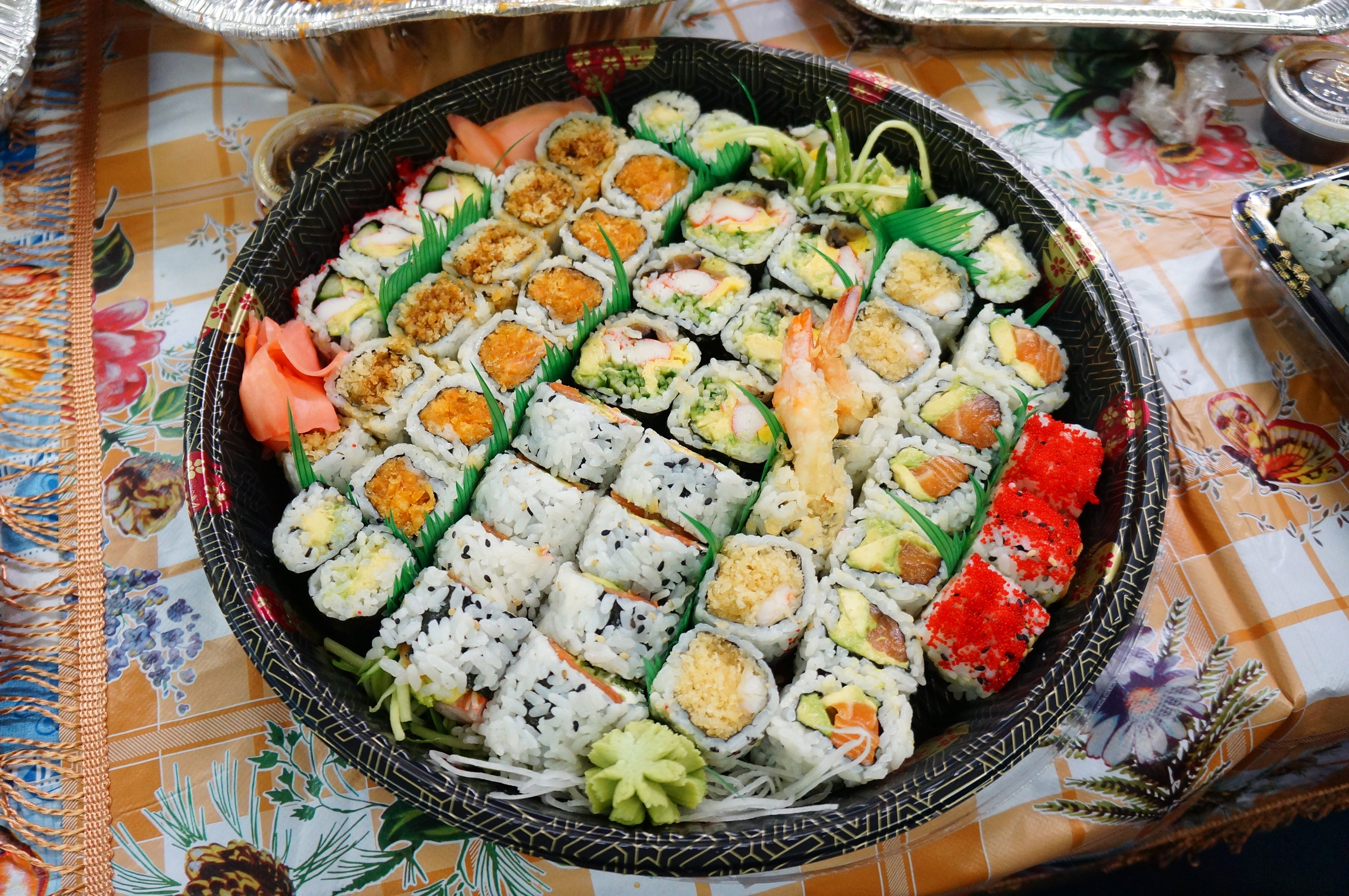 Large plate of sushis